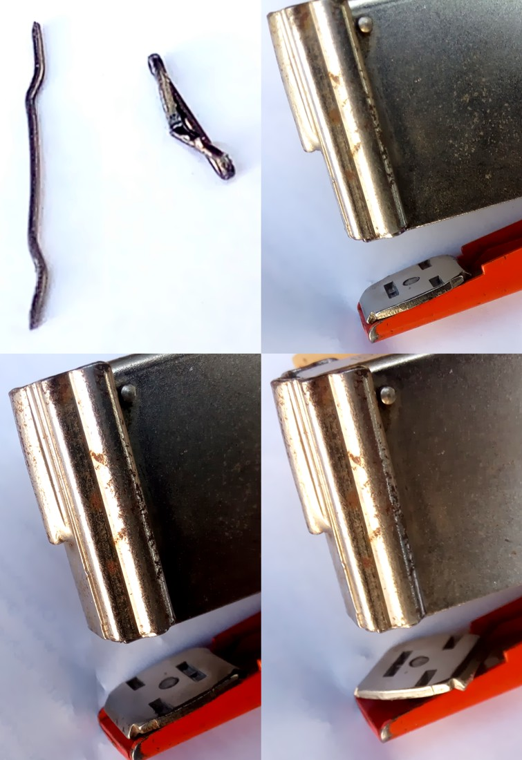 Double stapler stapler and stapling strap configuration